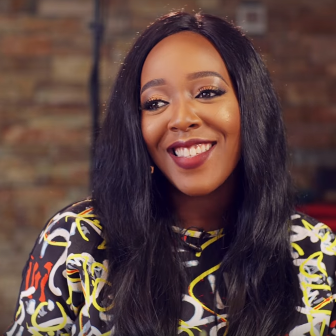 Real Talk, Nicole Asinugo with Leslie Okoye, Uche Maduagwu, Francesca Uriri and Daniel Effiong discussing being single and over 30 - from NdaniTV